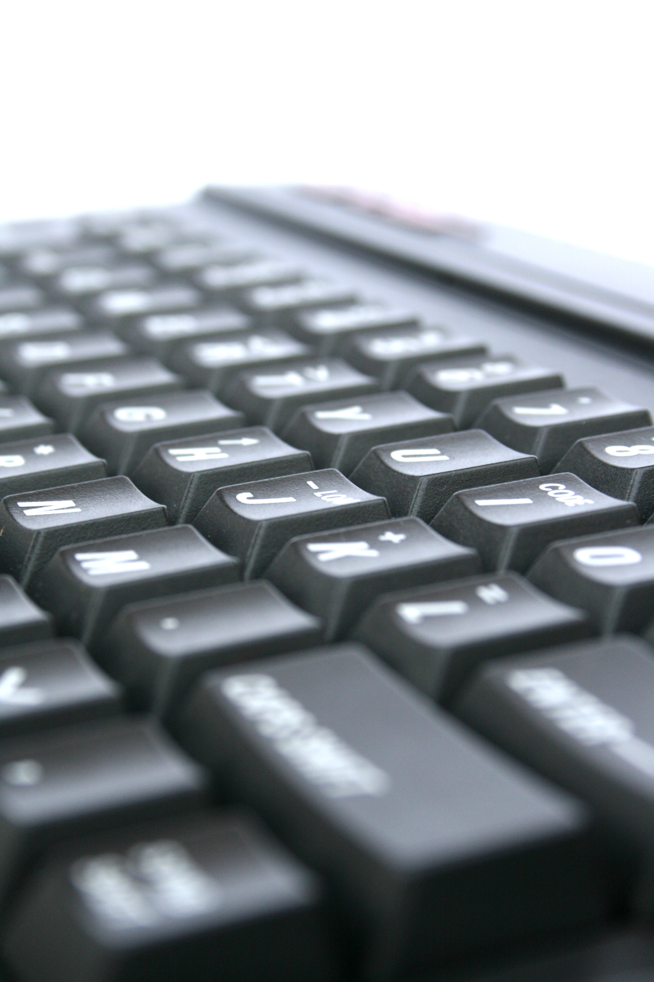 Close up of ZX Spectrum +3 keyboard